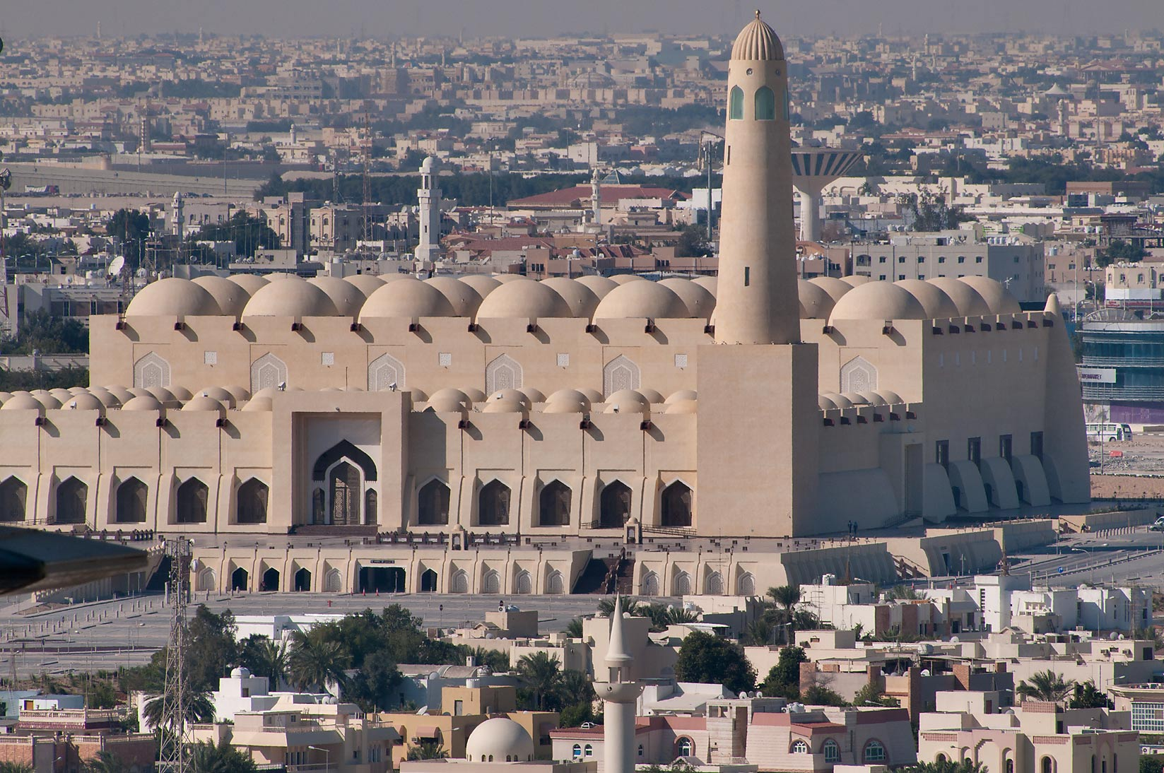 A view of the neighborhood of Leijbailat (Al Jebailat) and the State Mosque, aka. Imam Muhammad ibn Abd al-Wahhab Mosque in Doha, Qatar.